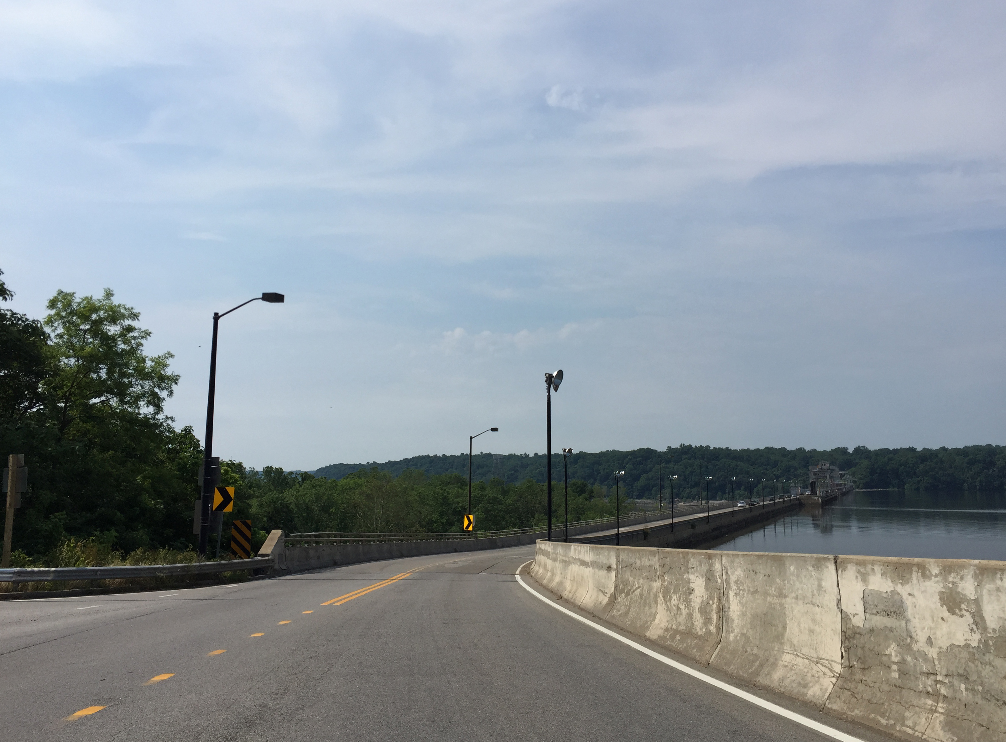 View south along U.S. Route 1 (Conowingo Road) in Conowingo, Cecil County, Maryland, approaching the Conowingo Dam on the Susquehanna River